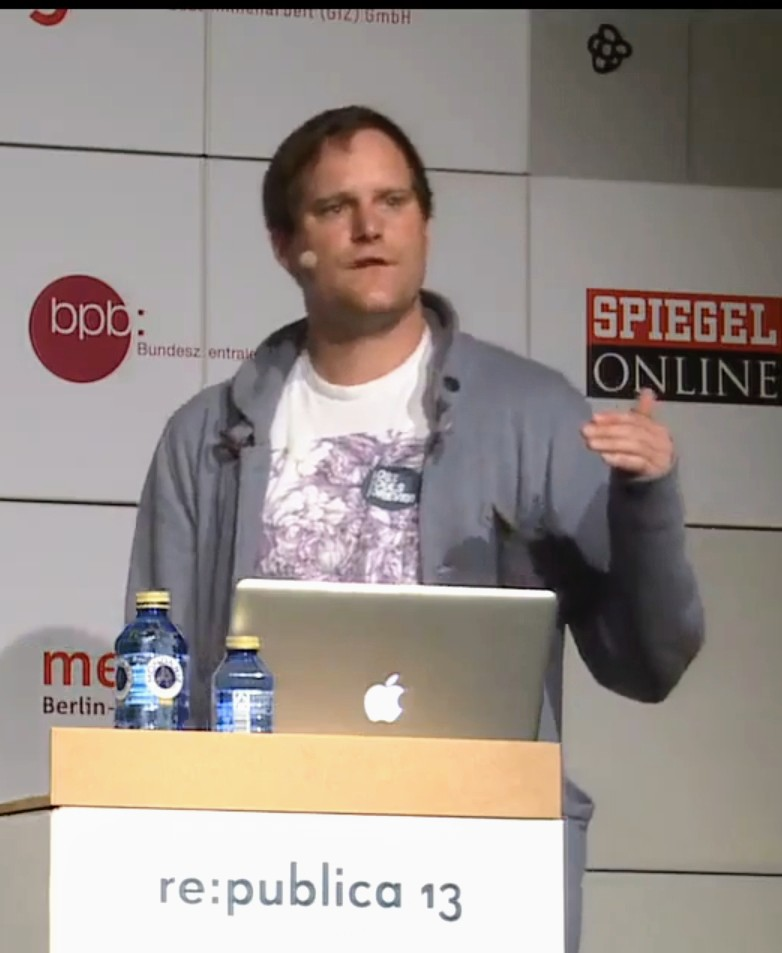 Find out more at: Music recommendation is an essential part of the music business. Artists like Trent Reznor have started to get involved in music disovery systems and talk of "Intelligent Curation". It might be time to envision a more emotional, i.e. relationship based approach to recommendations. Are we entering the age of "intelligent curation"? Just like the distribution of music has undergone fundamental changes in the last 15 years, so has the culture of music recommendation. The development of recommendation engines is an essential aspect of online retailers and music platforms, while social media has all but replaced traditional media as the dominant recommendation channel, resulting in a new ecology and economy of taste making. Where once individual gatekeepers and institutions like radio stations and magazines' editorial boards battled out hitmaking hegemony in the market with record labels' marketing departments and advert-driven promotion, today the supposedly free flow of ... Christian Tjaben | | | Oke Göttlich | | Creative Commons Attribution-ShareAlike 3.0 Germany (CC BY-SA 3.0 DE)